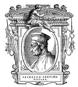 Illustratio from "Le Vite" by Giorgio Vasari, edition of 1568. For the artist portrayed see filename